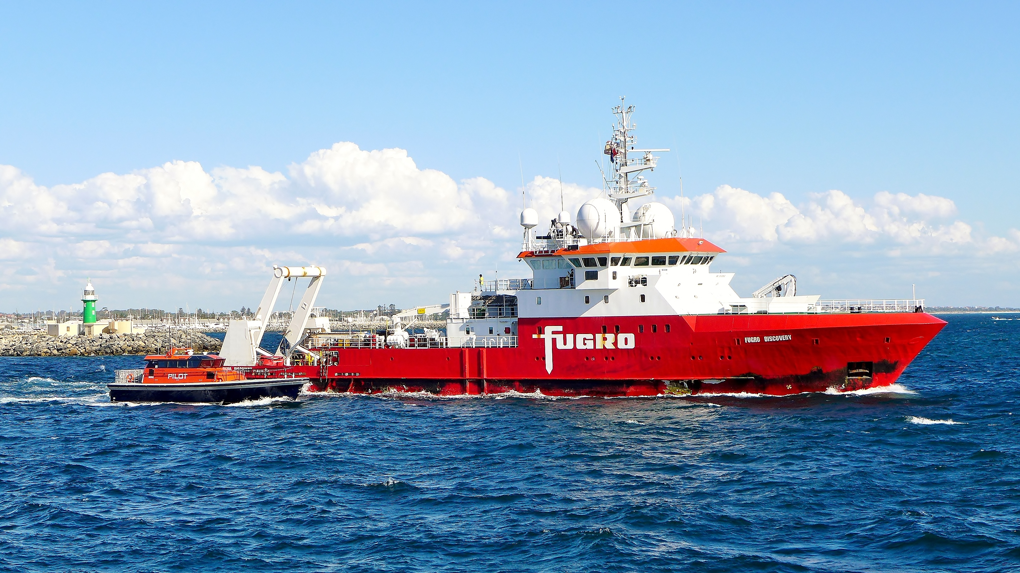 Fugro survey vessel Fugro Discovery departing from the inner harbour of the Port of Fremantle, Western Australia, to resume her role in the search for Malaysia Airlines Flight 370 in the southern Indian Ocean.